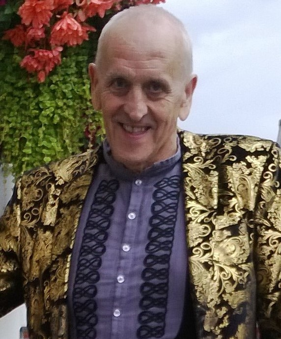 This is a photo of Micro-artist Graham Short